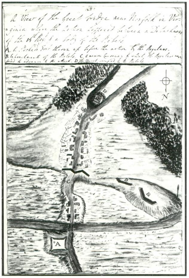 A sketch by Lord Rawdon of the 1775 Battle of Great Bridge, Virginia. Title: A view of the Great Bridge near Norfolk in Virginia where the action happened between a detachment of the 14th Regt: & a body of the rebels. Key: A. A stockade fort thrown up by the regulars before the action. B. Entrenchments of the rebels. C. A narrow causeway by which the regulars were forced to advance to the attack. D. The church occupied by the rebels.